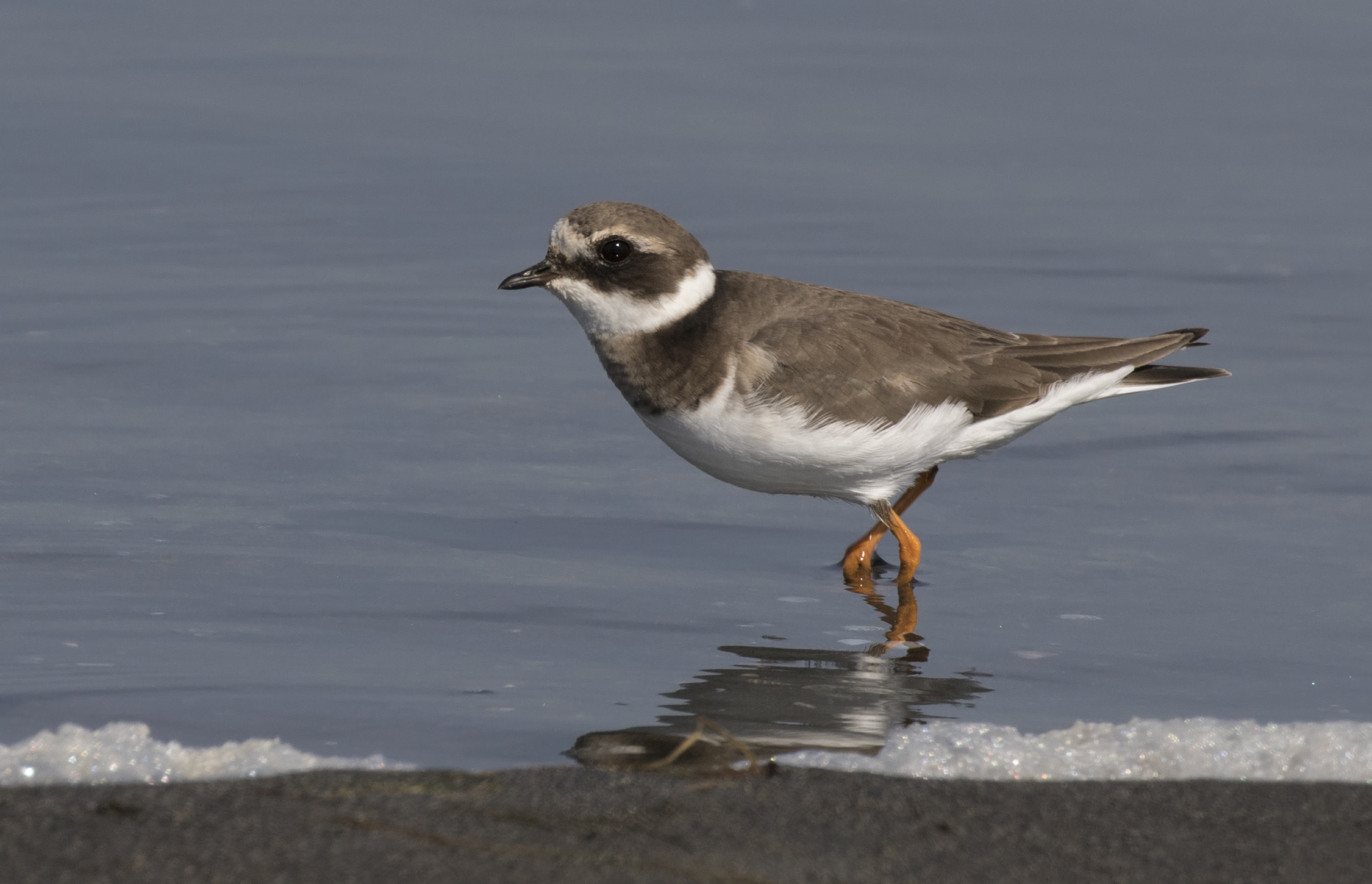 Common Ringed Plover (Charadrius hiaticula). Tuzla, Karataş - Adana, Turkey.